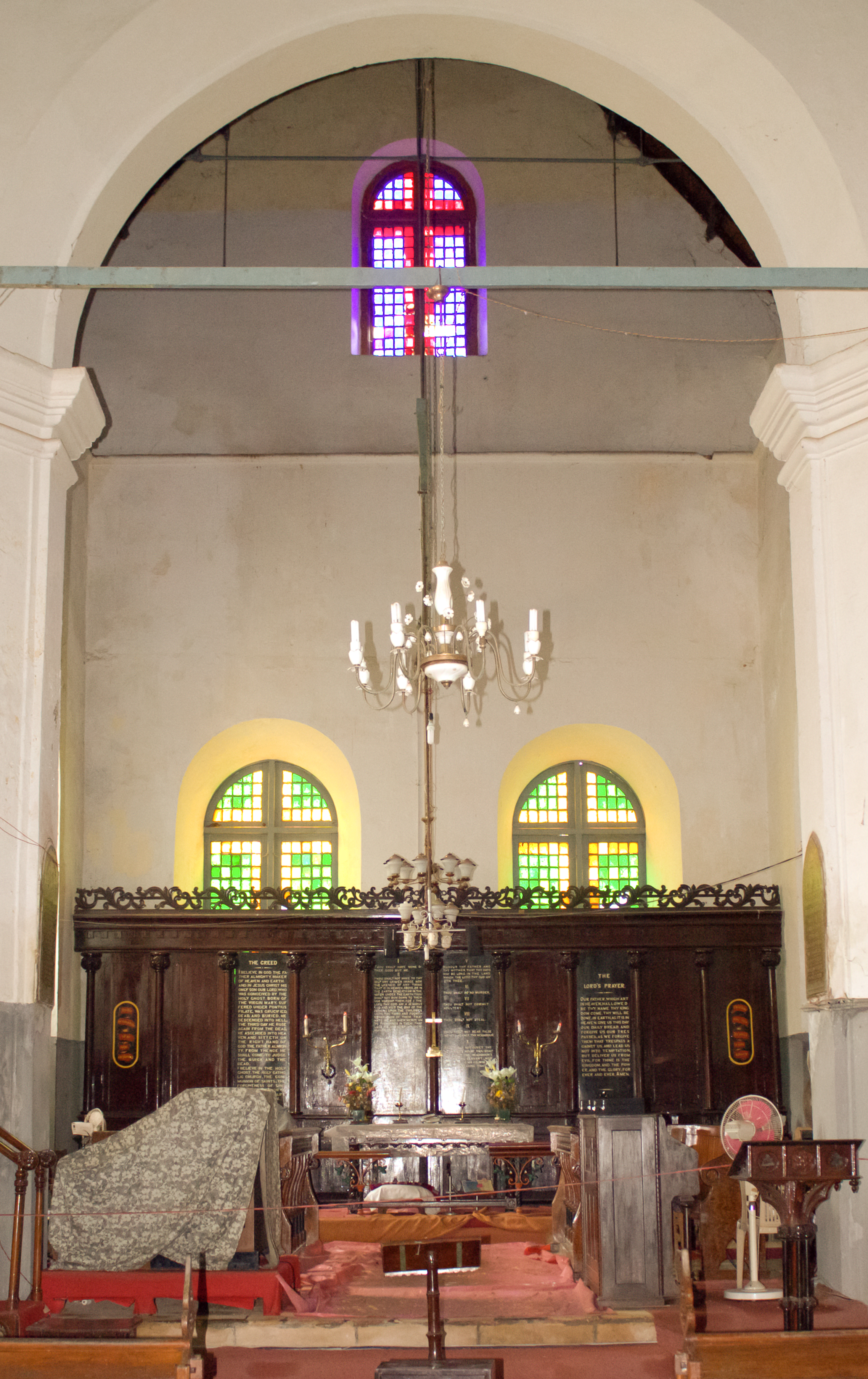 The Alter of St. Francis Church